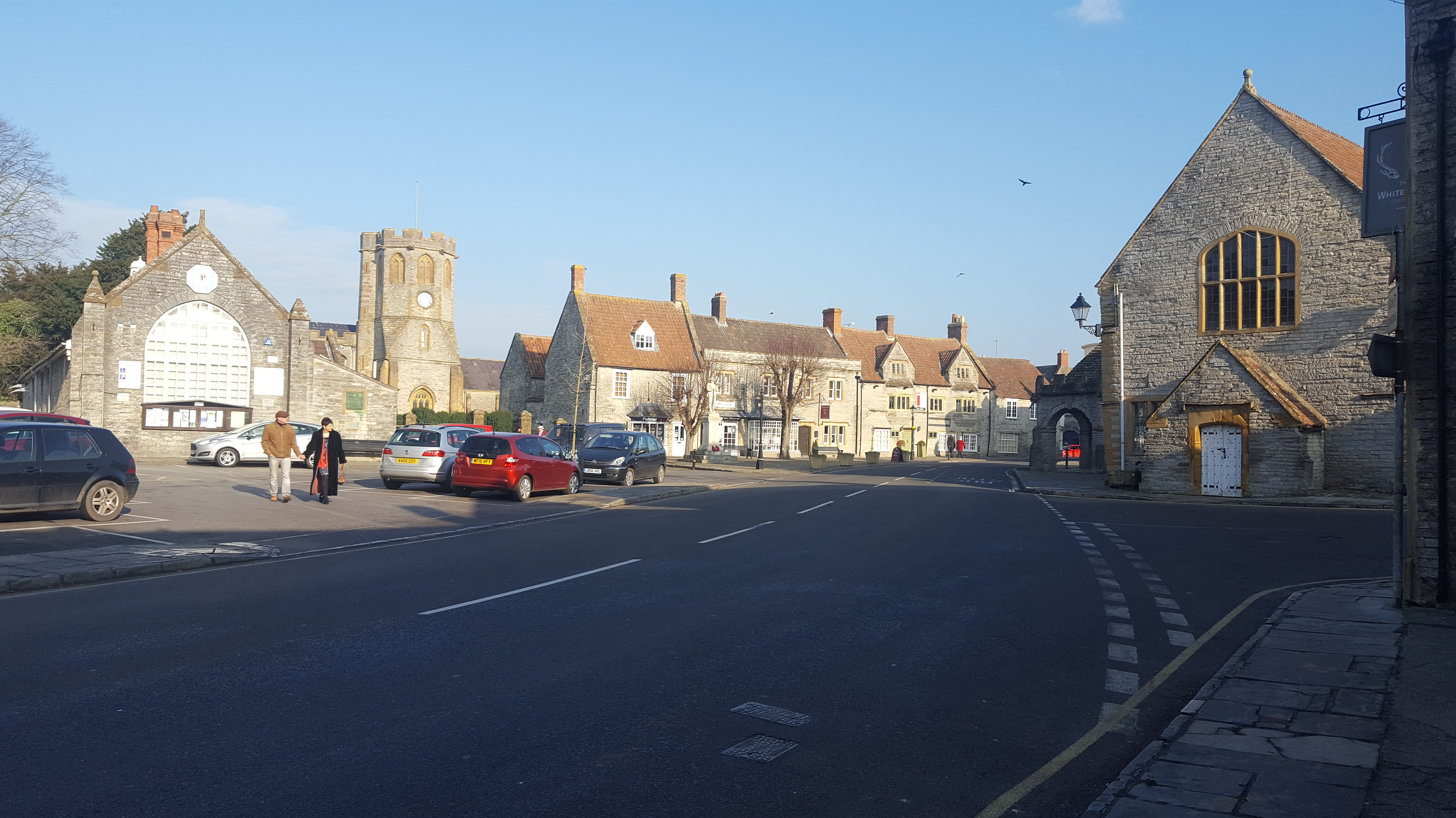 Somerton Town Centre, located in the heart of Somerset.